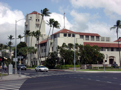 Honolulu Hale. Licensed to Wikipedia by Keith Higa.